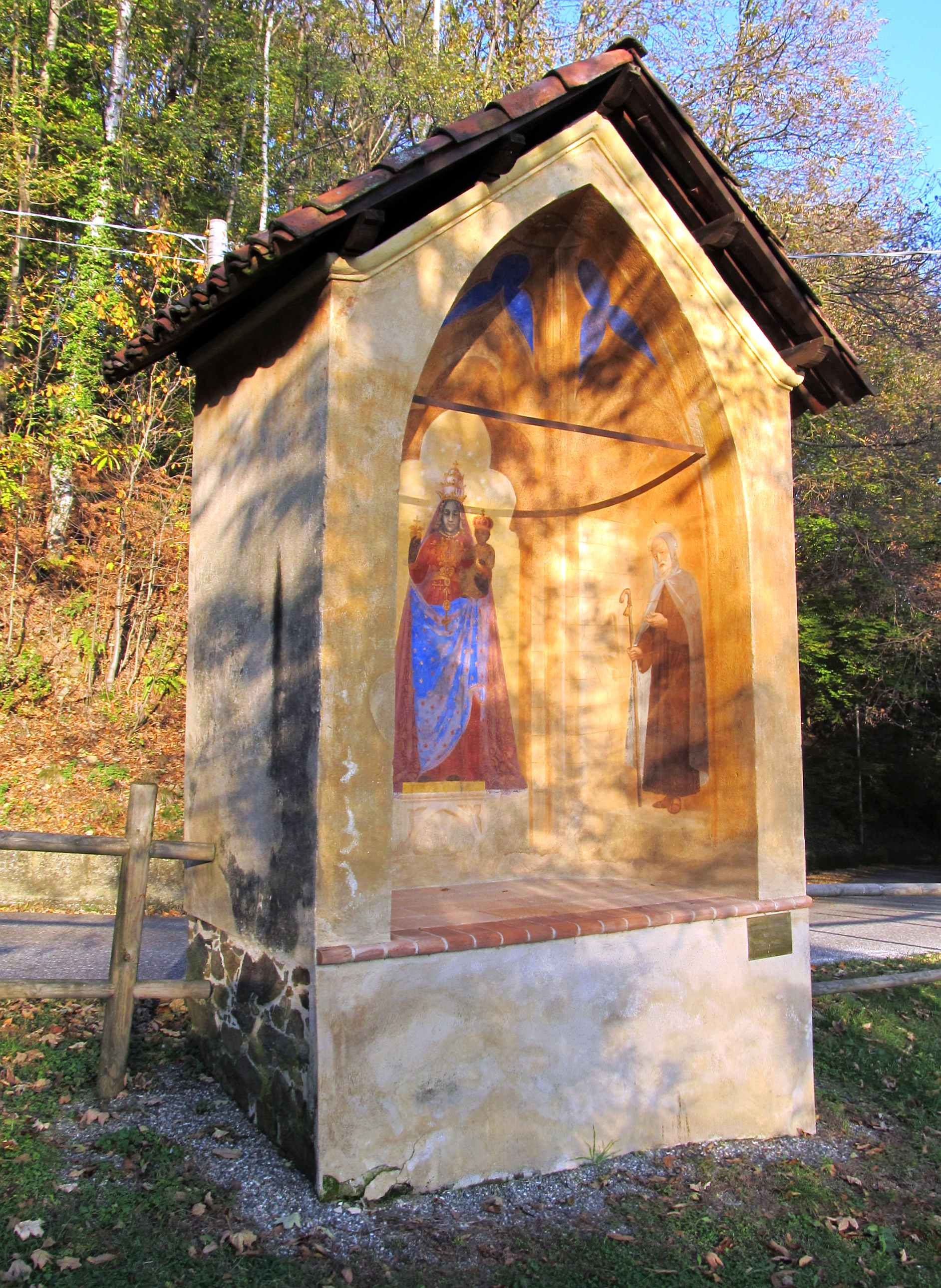 Votive chapel devoted to the Holy Virgin of Oropa and some Saints near Nelva, a village in Callabiana municipality (BI, Italy)